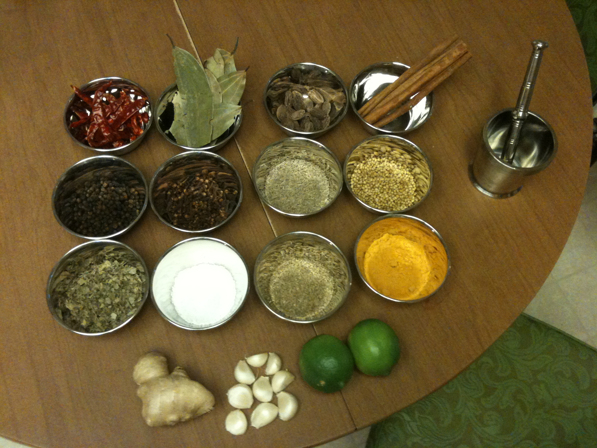 An outlay of most of the spices and seasonings used to make Butter Chicken / Murgh Makhani